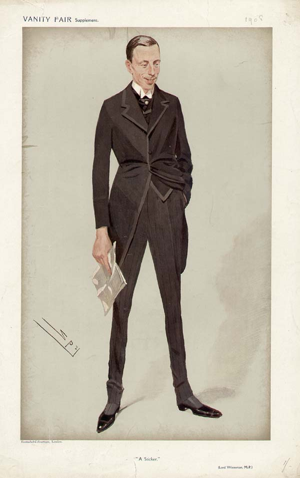 Men of the Day No.1136: Caricature of Earl Winterton MP. Caption reads: "A Stickler"